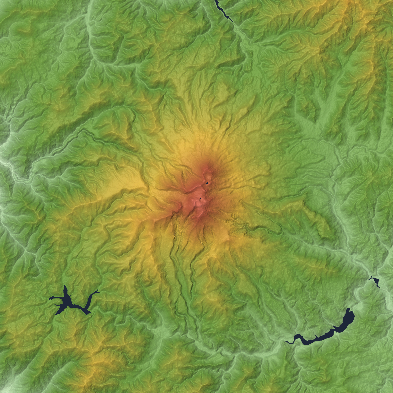 Mount Ontake in the border between Nagano and Gifu Prefectures, Honshu, Japan.